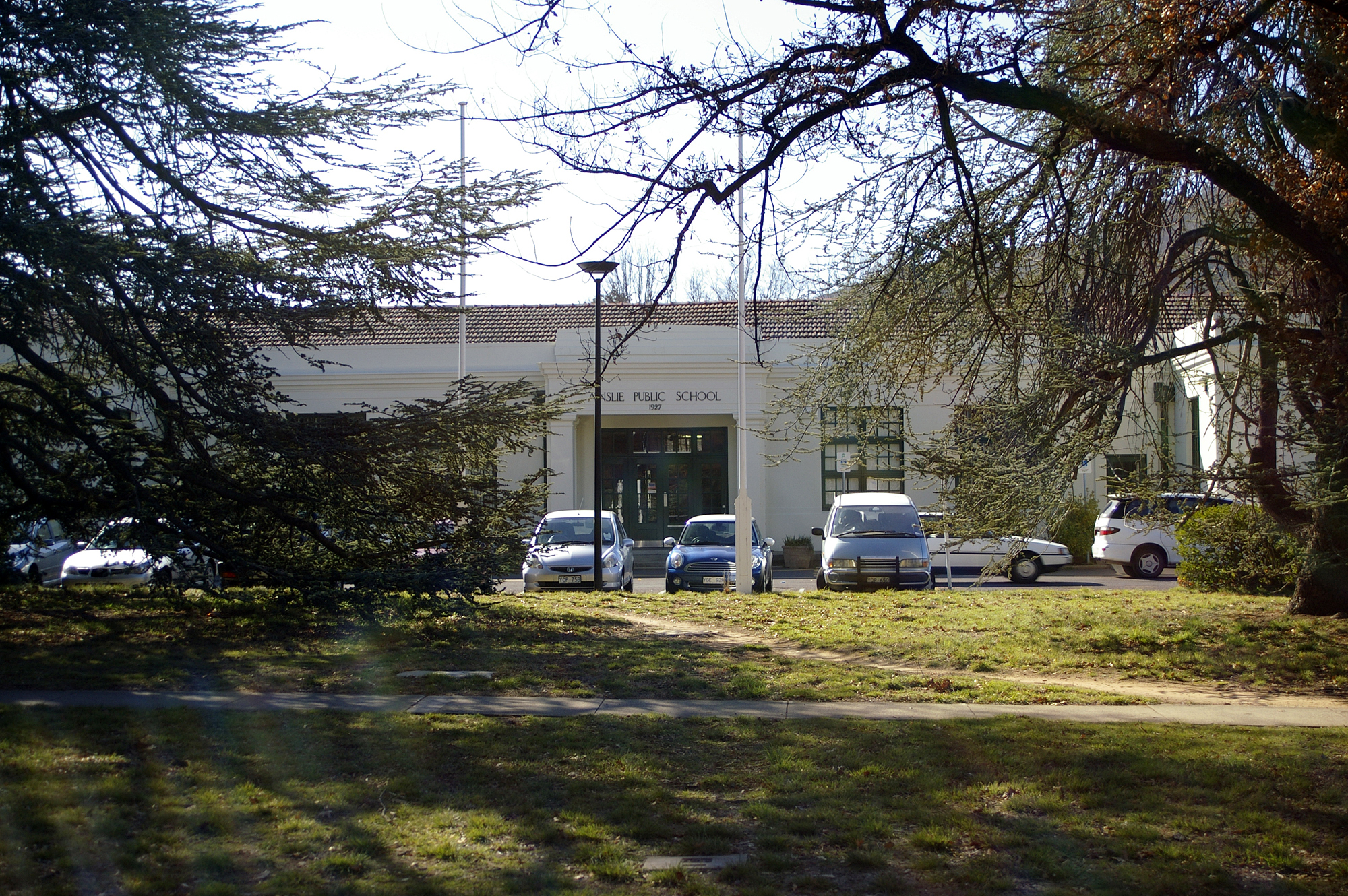 Ainslie Primary School in Braddon.